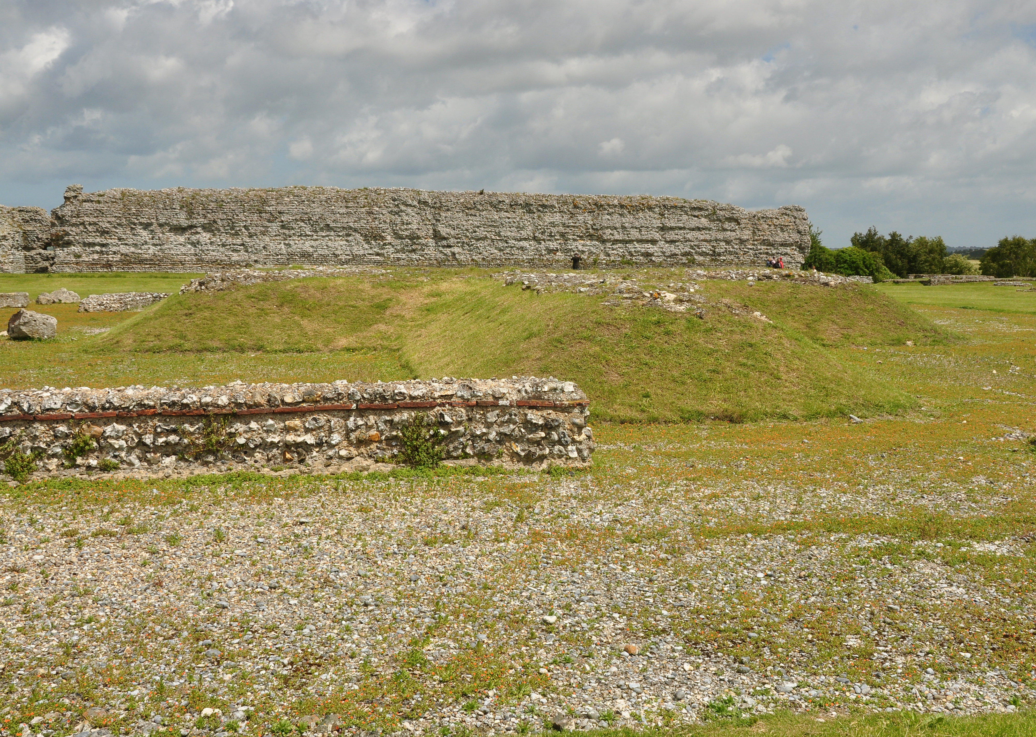 Remains of the triumphal arch in Richborough Castle, Kent.